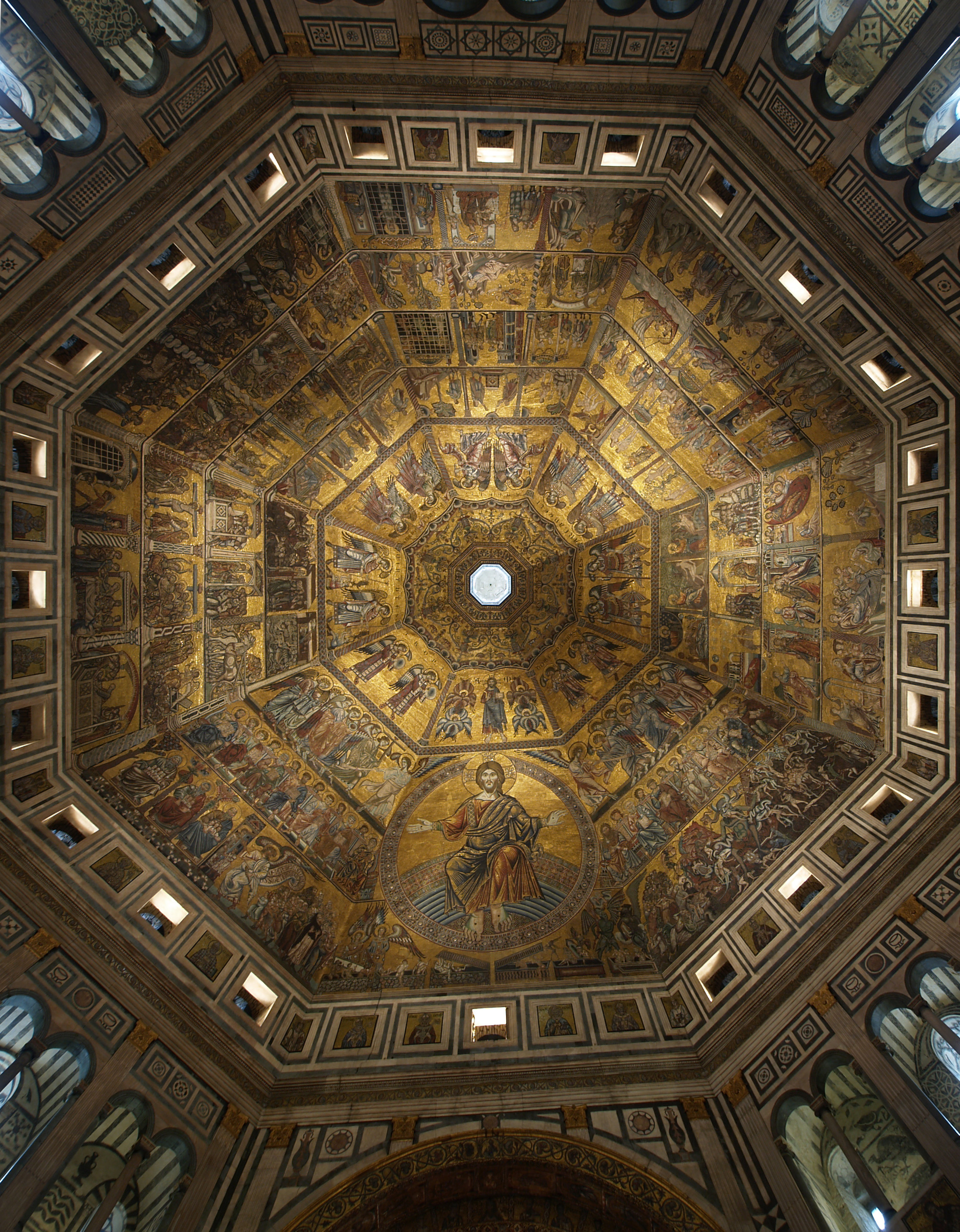 The mosaic ceiling of the Baptistery San Giovanni in Florece in total view